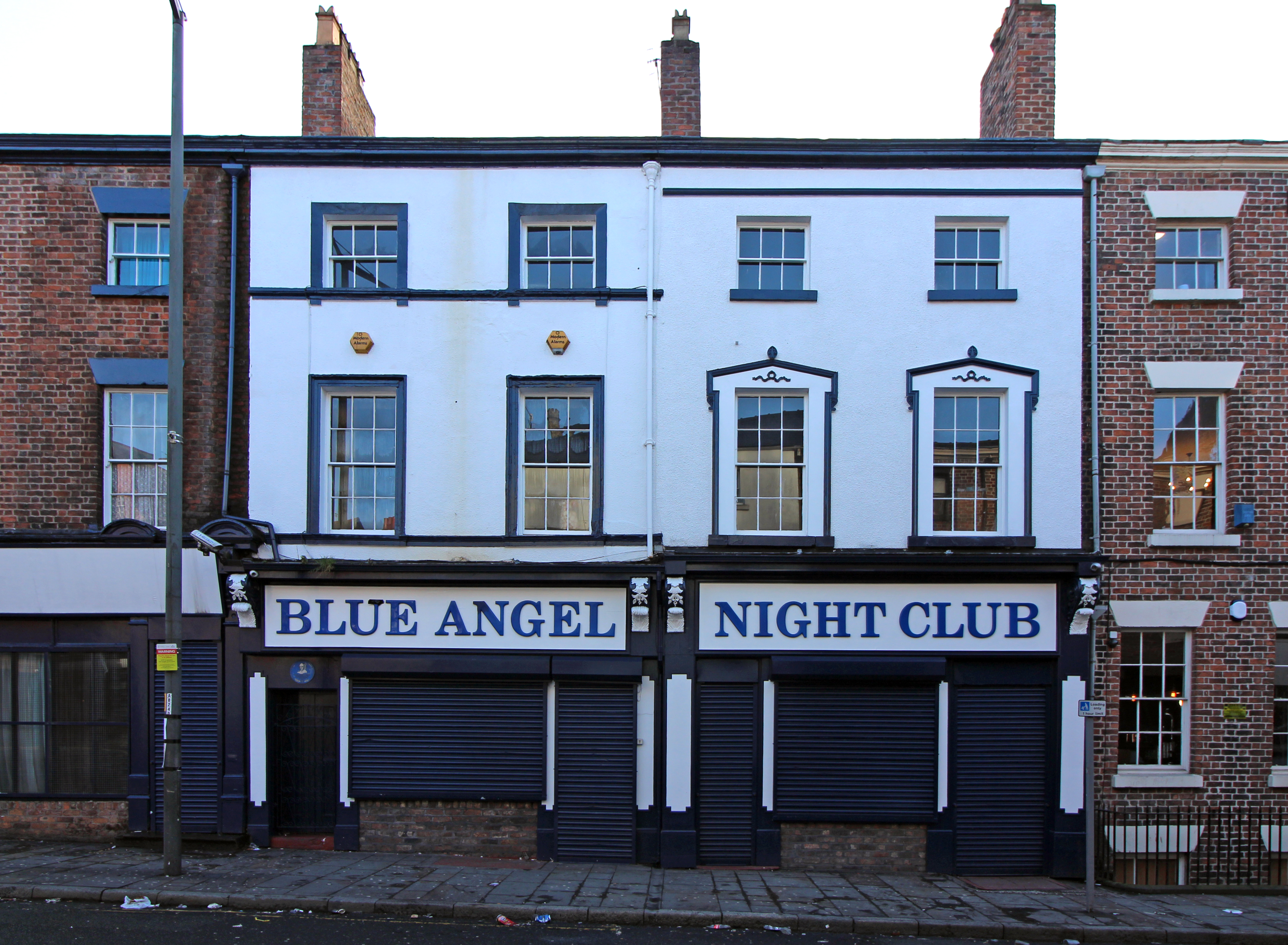 Frontage of the Blue Angel, birthplace of William Henry Duncan in 1805, in the 1960s a music venue and nowadays a nightclub.